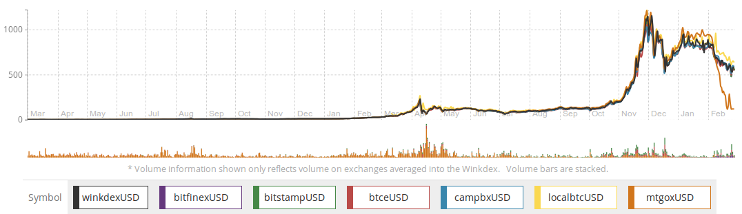 History of bitcoin exchange rates with the US dollar.